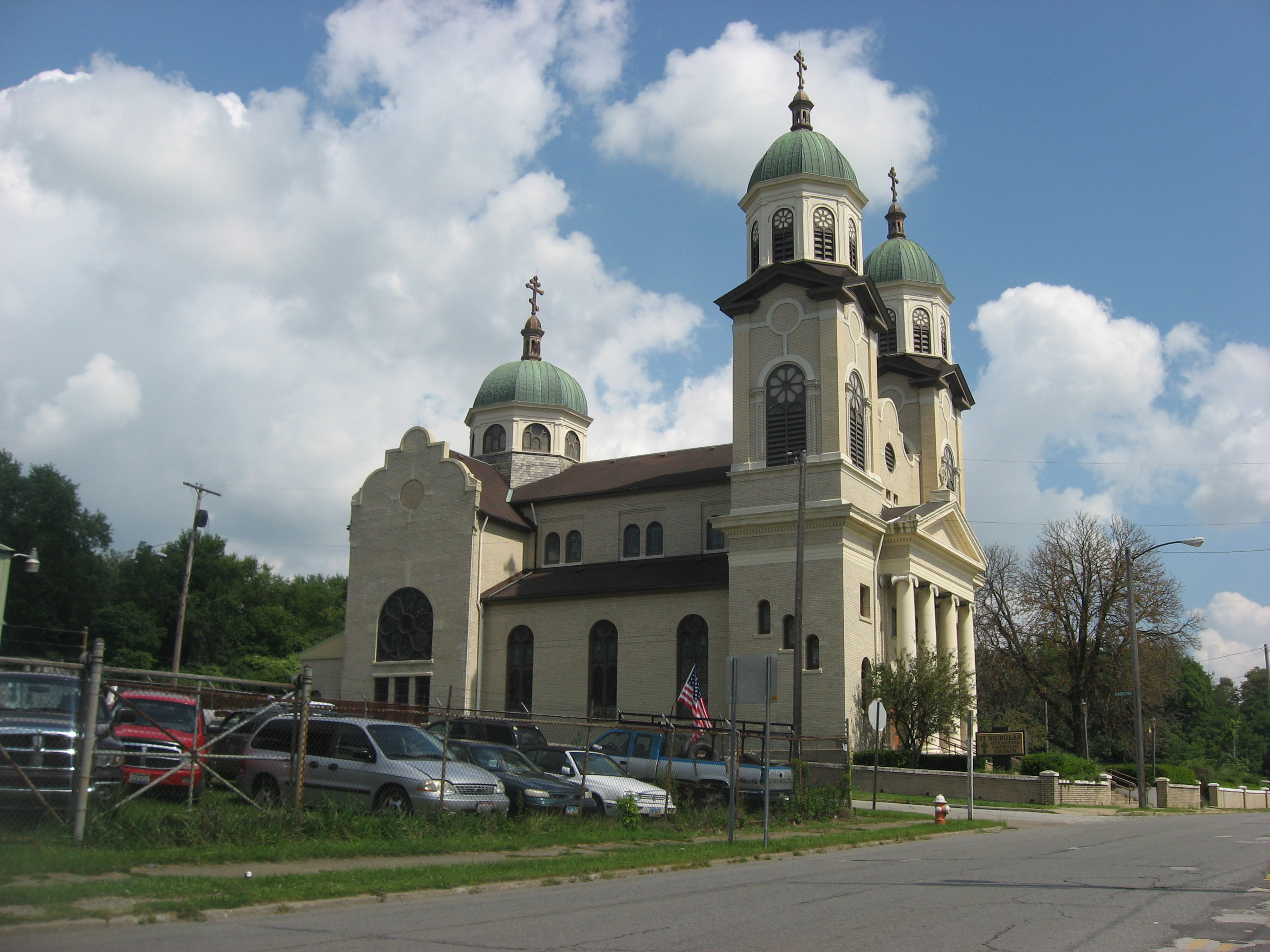 Western side and front of St. Nicholas Byzantine Catholic Church, located at 1898 Wilson Avenue (State Route 289) in Youngstown, Ohio, United States. It was built in 1919.